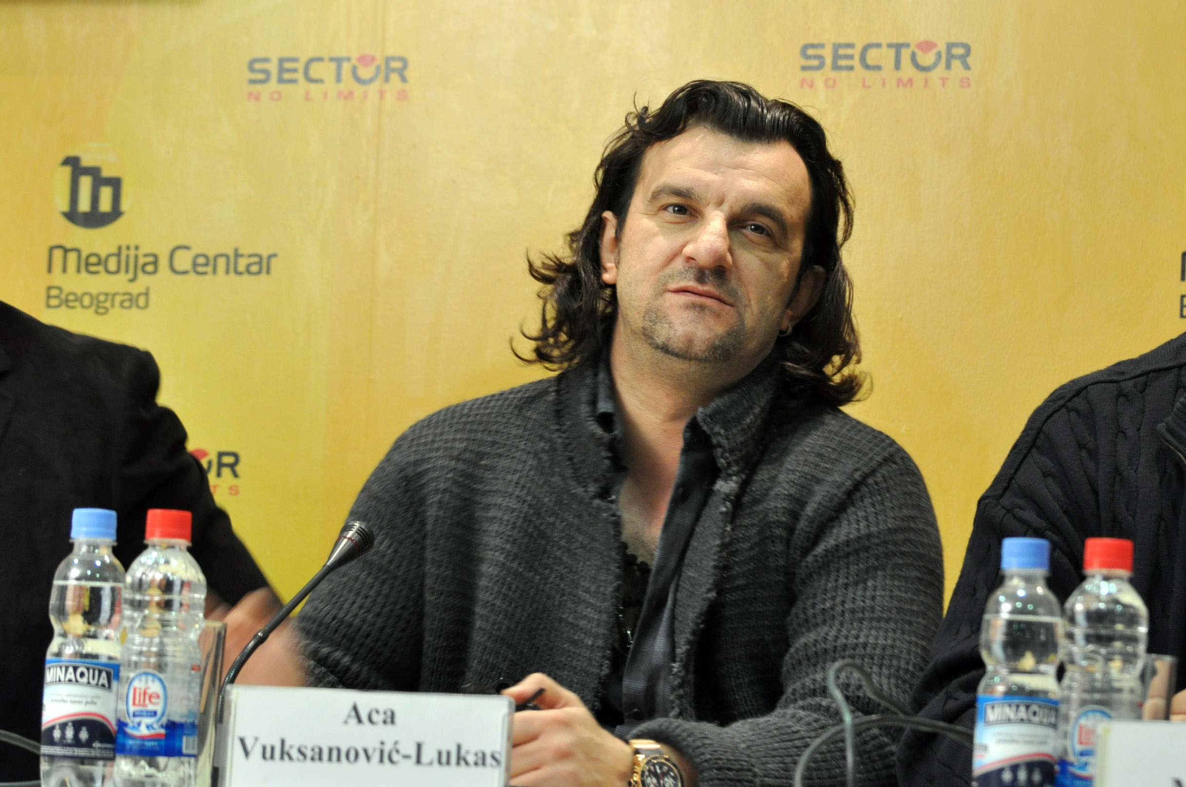 Aca Lukas